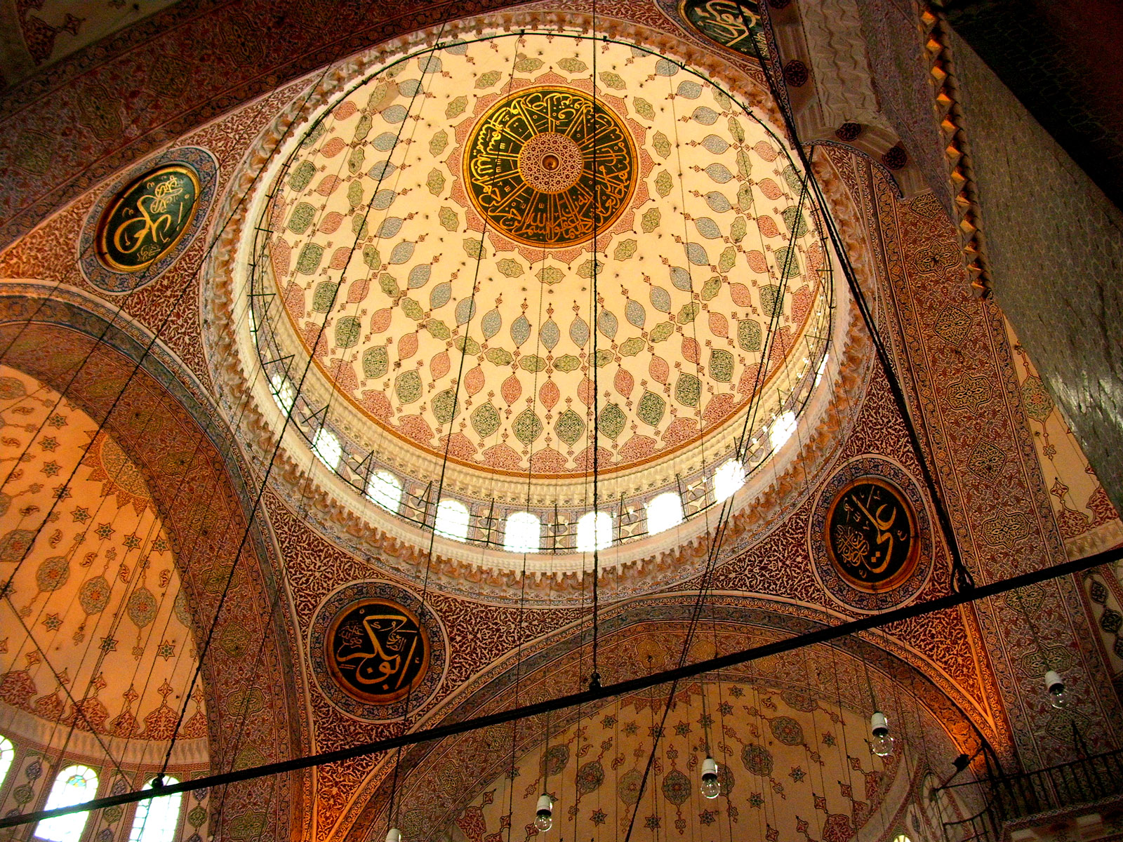 interior view of yeni mosque dome